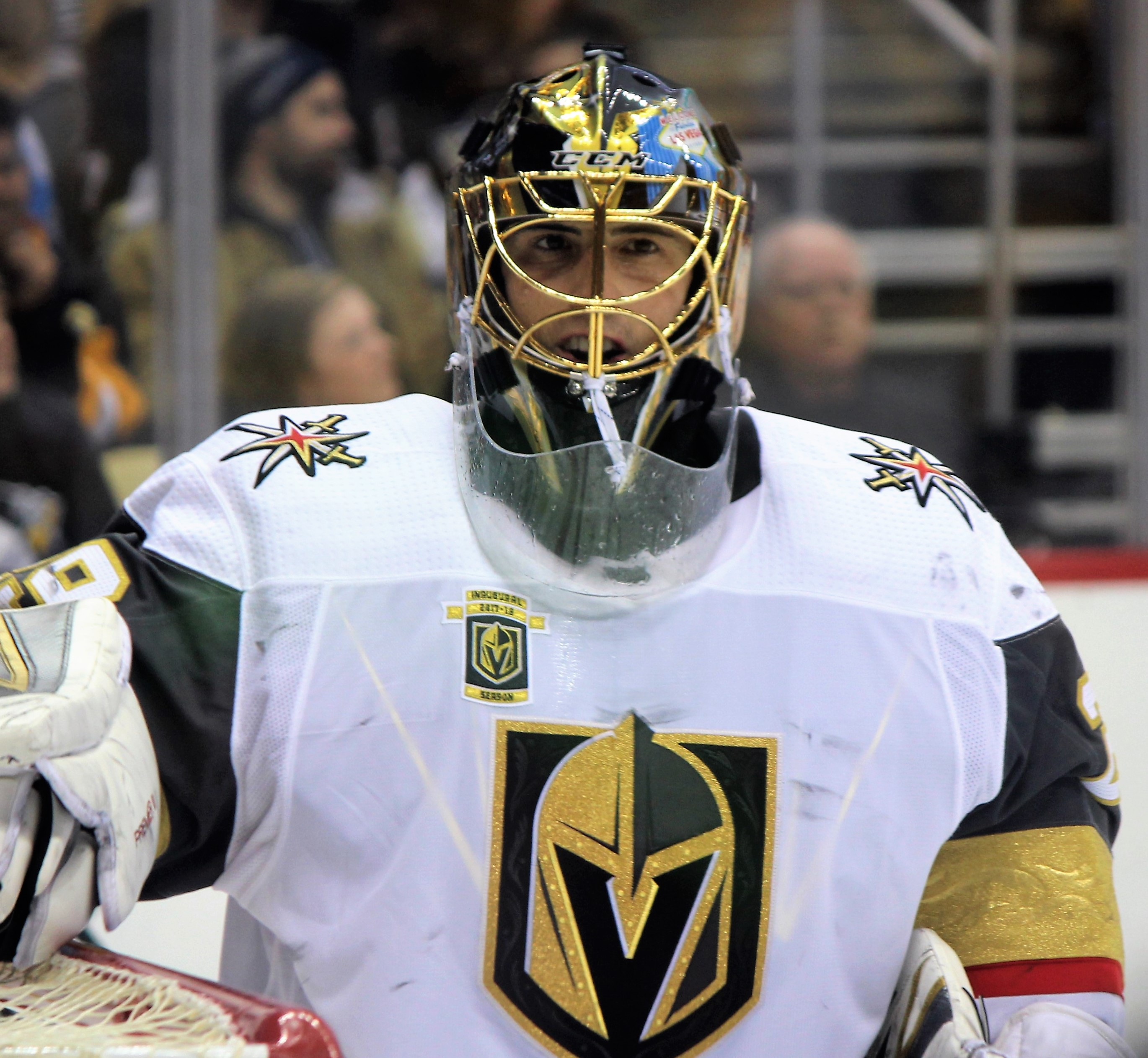 Vegas Golden Knights goaltender Marc-Andre Fleury during a game against the Pittsburgh Penguins, February 6, 2018, at PPG Paints Arena in Pittsburgh, PA.